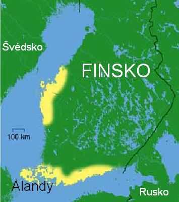 Finland Swedish/Finská švédština